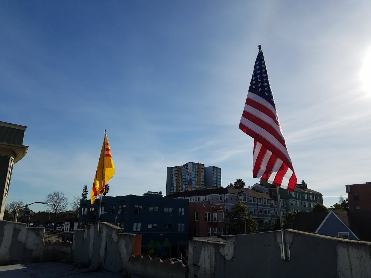 Vietnamese Yellow Flag are visible everywhere in Oakland Little Saigon